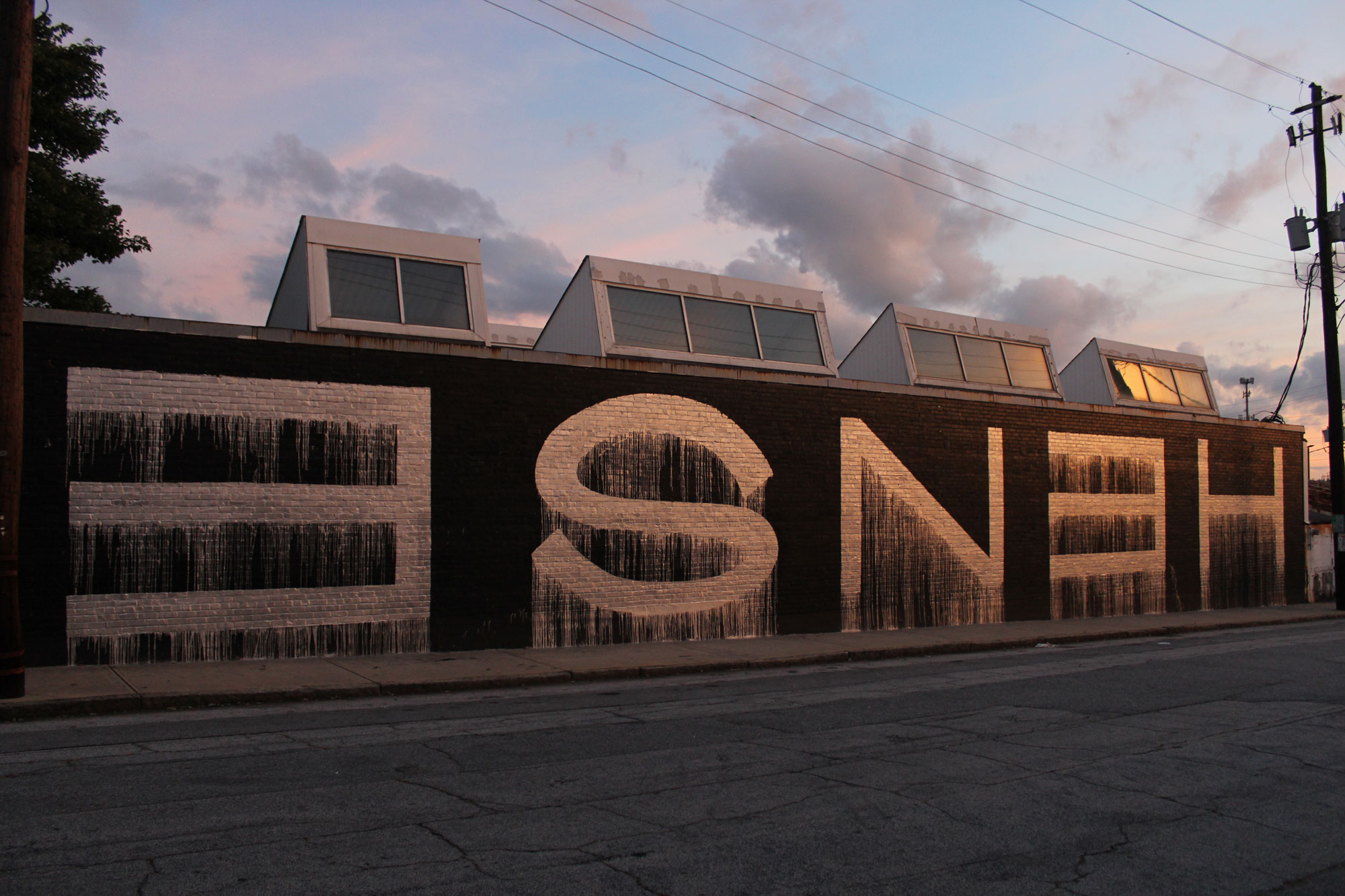 Means Street Historic District, Bounded by Marietta St., Bankhead and Ponders Aves., and the Southern rail liNE. Atlanta